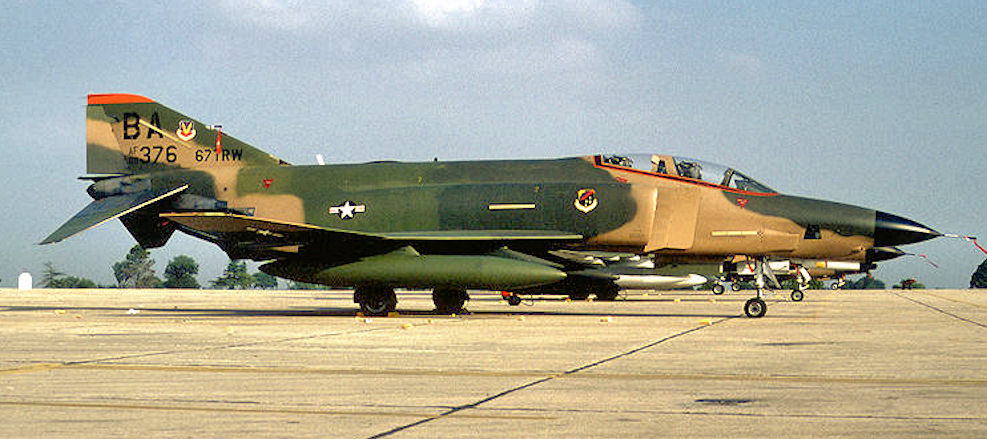 91st Tactical Reconnaissance Squadron McDonnell Douglas RF-4C-44-MC Phantom 69-0376 at Bergstrom AFB, 1973. Retired to to AMARC as FP0805 Jan 17, 1992 with the squadron's inactivation and phaseout of the F-4 Phantom.